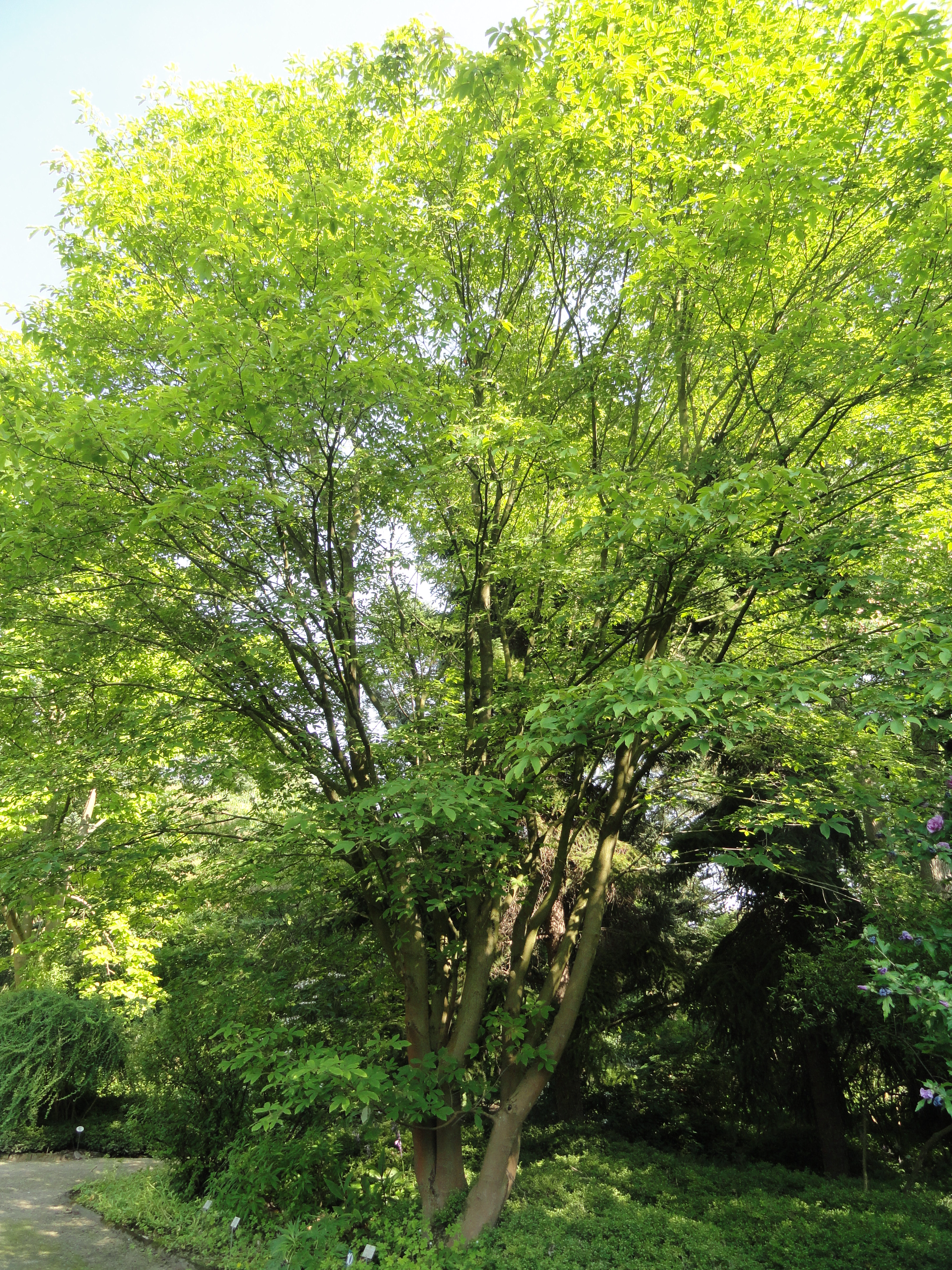 Botanical specimen in the Botanischer Garten, Frankfurt am Main, Germany.